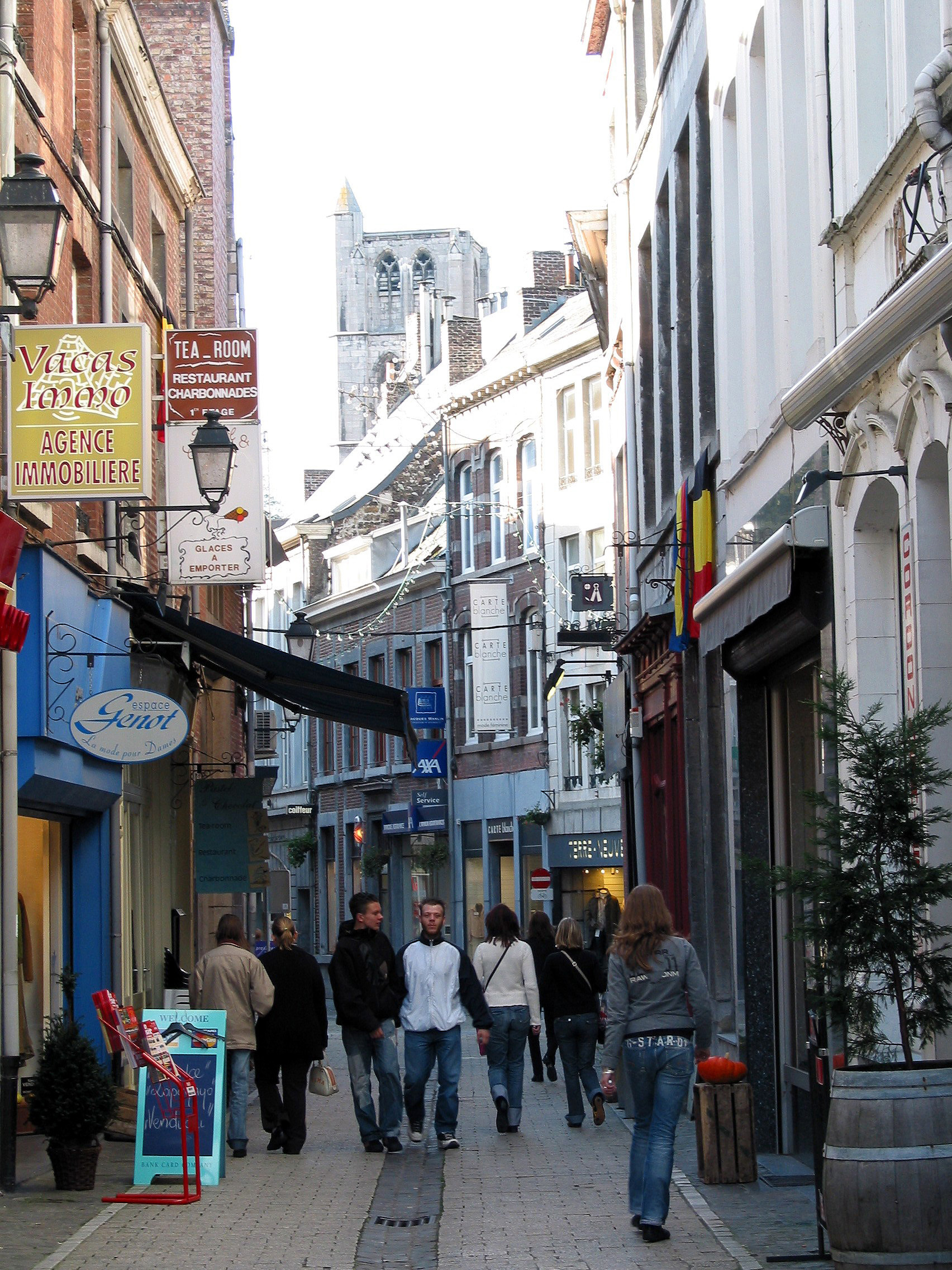 Huy (Belgium), rue Vierset-Godin.